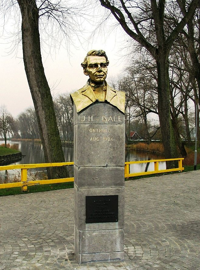 Bust of Johan Hendrik van Dale. Made by Pieter Puype in 1924 and placed in Sluis.